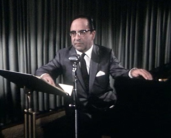 Frame from the promotional film "WJR: One of a Kind". WJR radio host Karl Haas